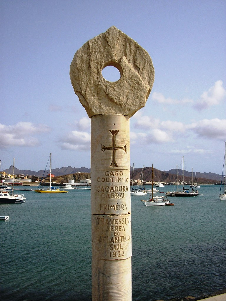 Monument to the first air crossing of the South Atlantic Ocean by sculpture Cutileiro in Mindelo town, São Vicente island, Cape Verde.